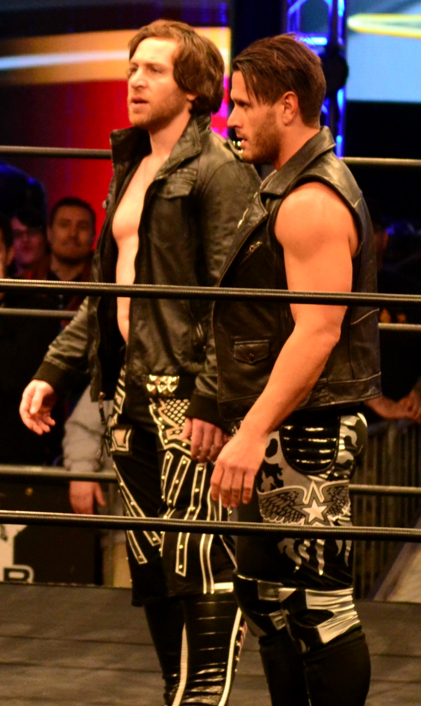 The Motor City Machine Guns (Chris Sabin (left) and Alex Shelley (right)) at an ROH taping on February 27, 2016.